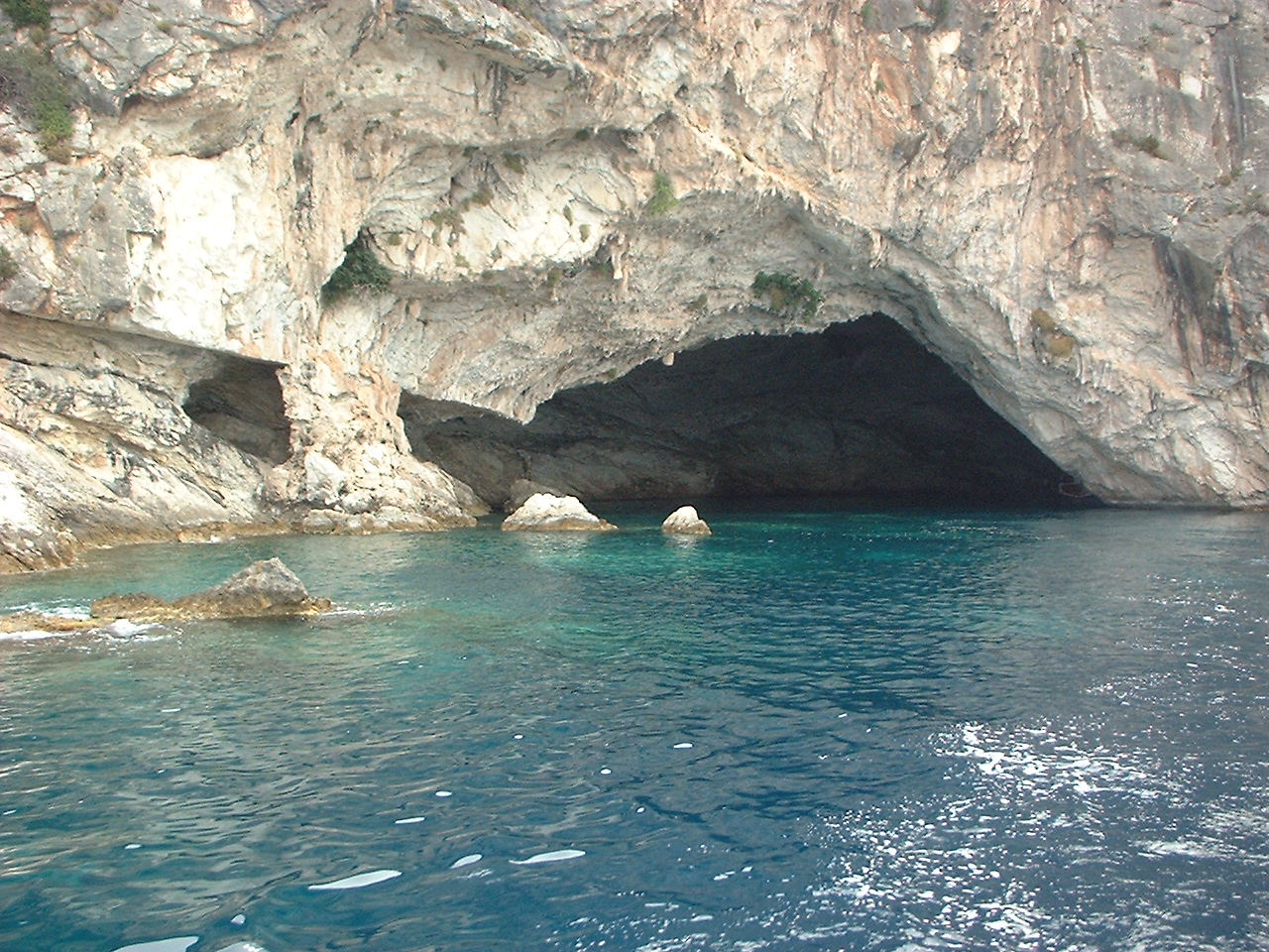 Cave of Meganisi